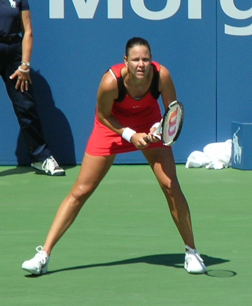 Lindsay Davenport preparing to return serve during the 2006 US Open.